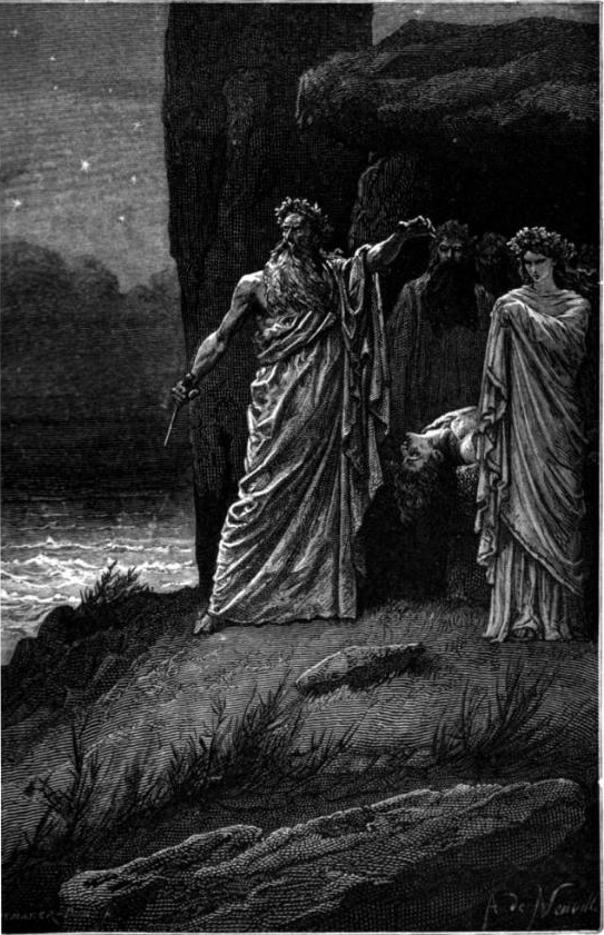 The Last of the Druids